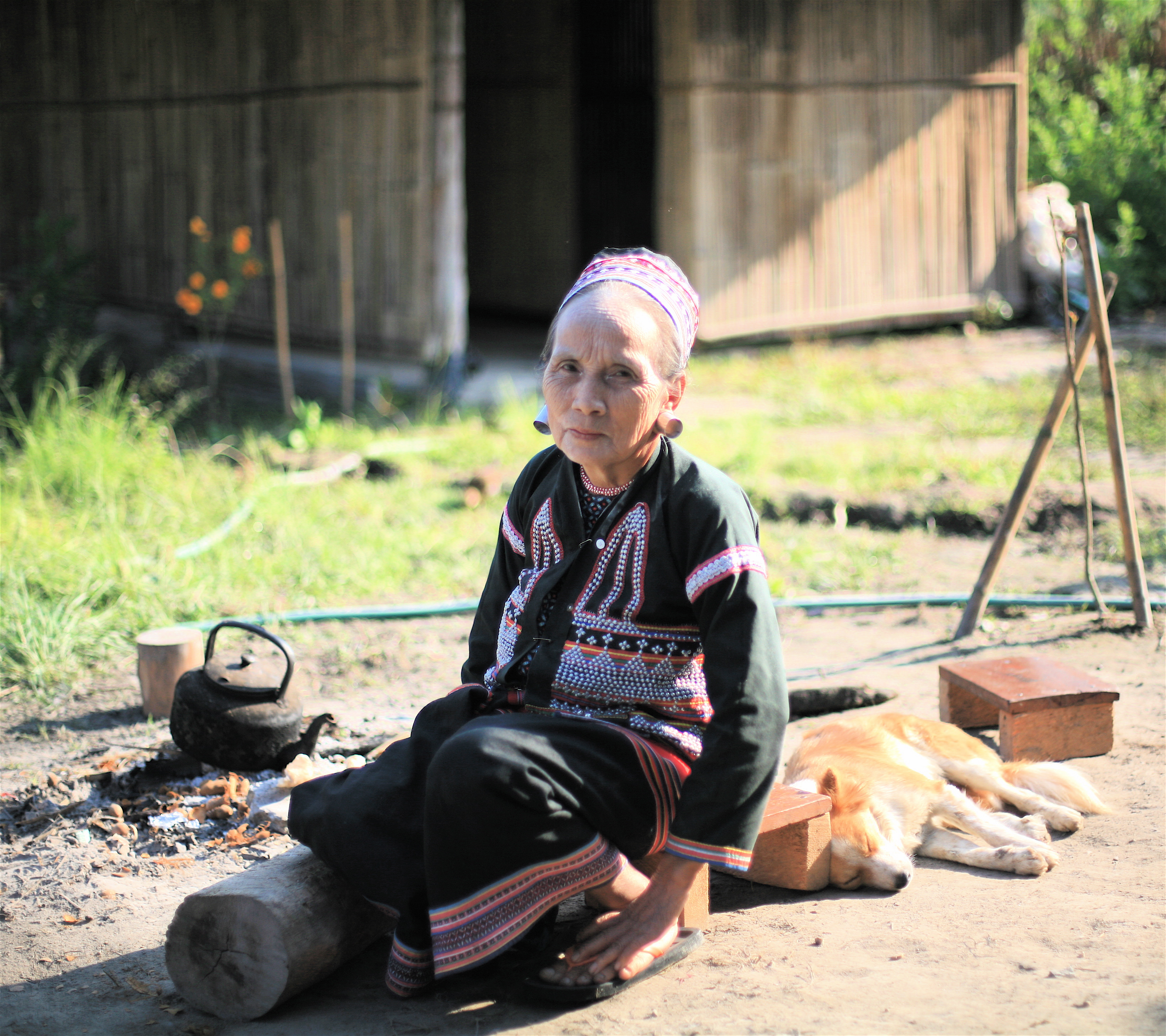 Lahu woman in traditional clothes, sitting on the ground next to a fire and a sleeping dog. Original caption: The Lahu hill tribes of Thailand are also refugees from nearby Myanmar. The women wear large metal tubes through their earlobes.